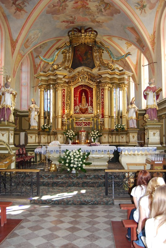 The presbytery of the marian shrine in Skępe